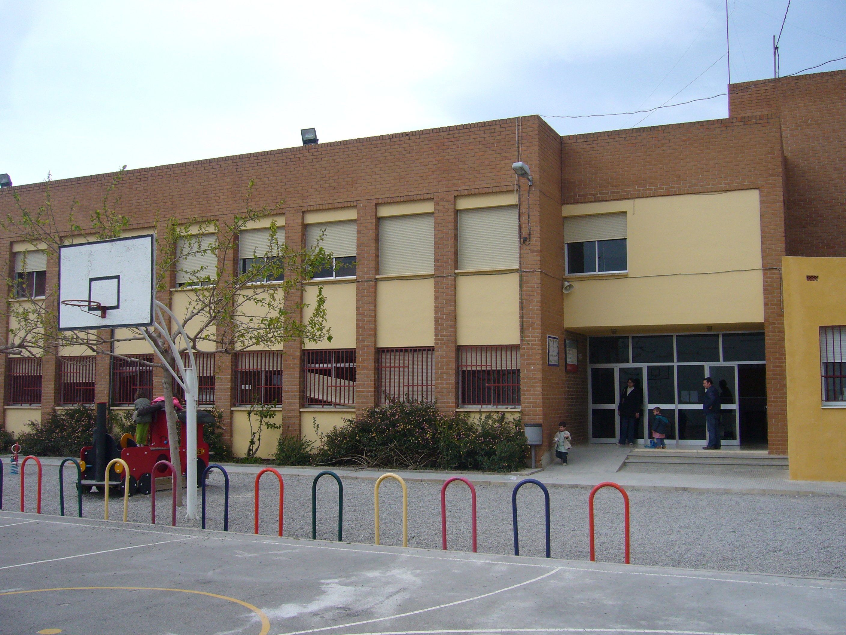 Sant Llorenç Màrtir school